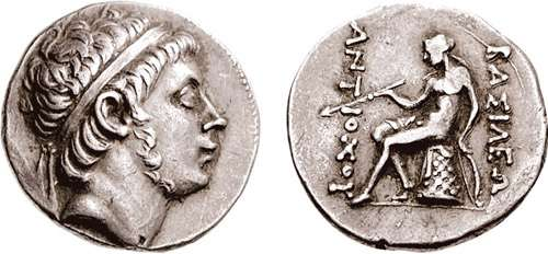 Antiochos Hierax. 246-227 BC. AR Tetradrachm (16.81 gm, 12h). "Sardes" mint. Diademed head right / BASILEW[S] ANT-IOCOU, Apollo seated left on omphalos, nude but for slight drapery on right thigh, holding arrow in right hand, left hand resting on bow. SC 902.1; Mшrkholm, "Some Seleucid Coins from the Mint of Sardes," NNЕ 1969